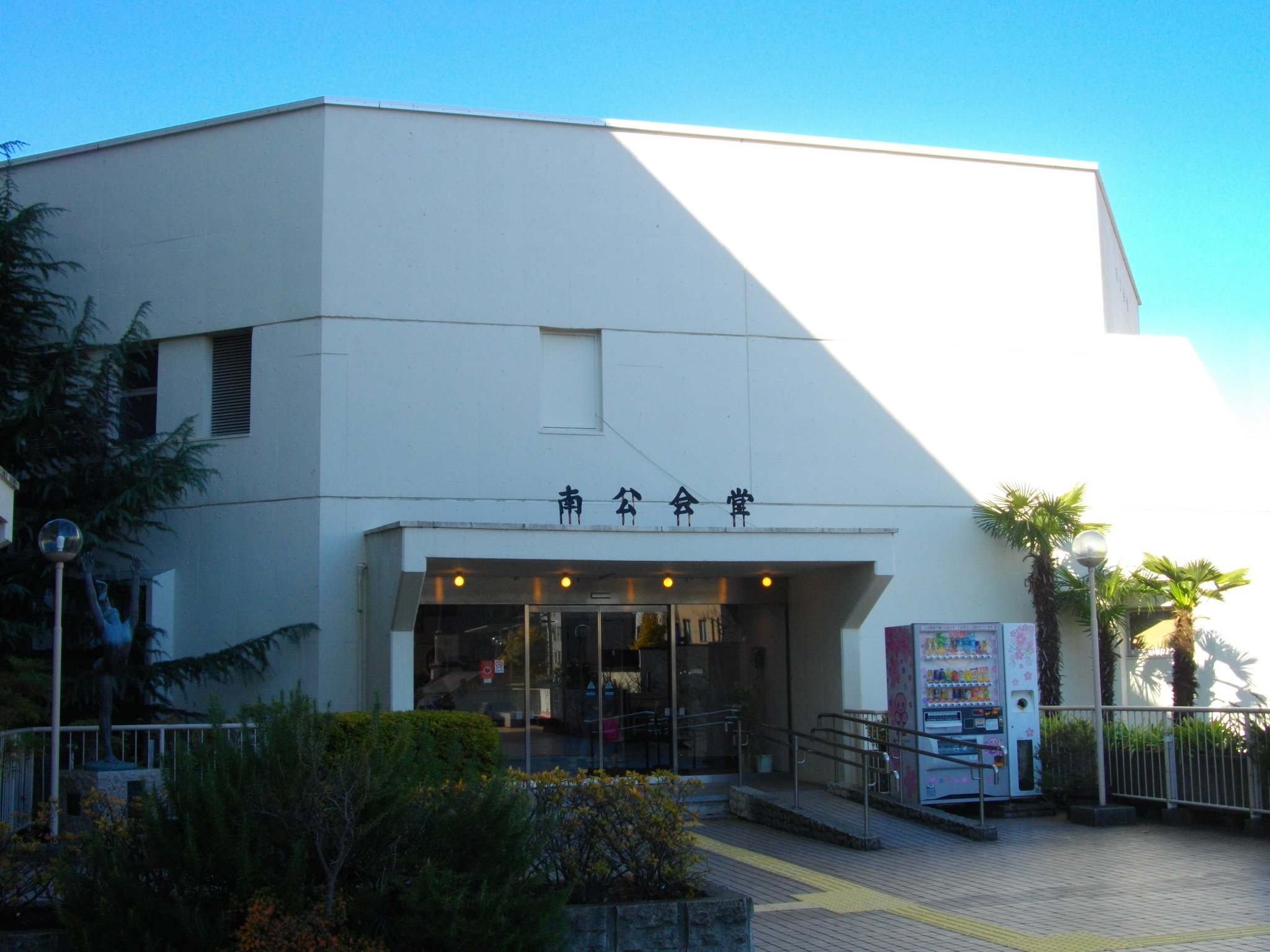 Yokohama Municipal Minami Public Hall